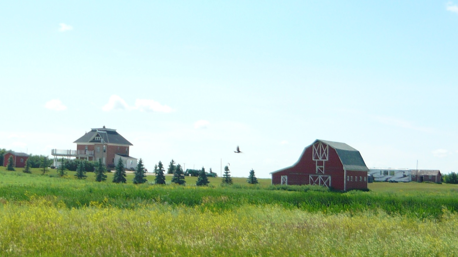 The J. Fred Johnston House, built about 1911. A municipal heritage property in the Rural Municipality of McCraney No. 282, near Bladworth, Saskatchewan, Canada. Named for its first owner, John Frederick Johnston (1876-1948), former Member of Parliament. Photo taken from Highway 11.